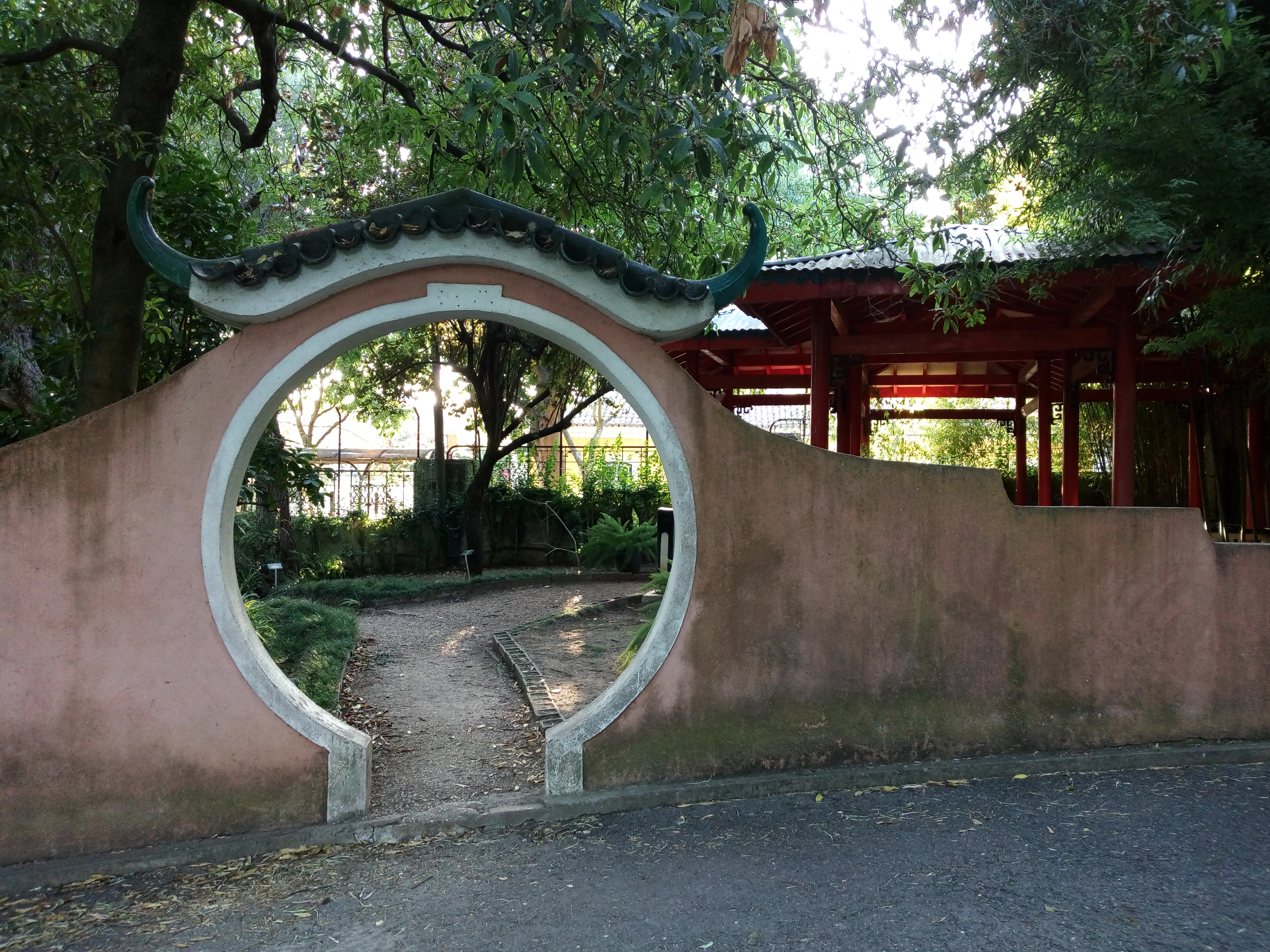 Oriental Garden of the Jardim Botânico Tropical in Lisbon, Portugal.